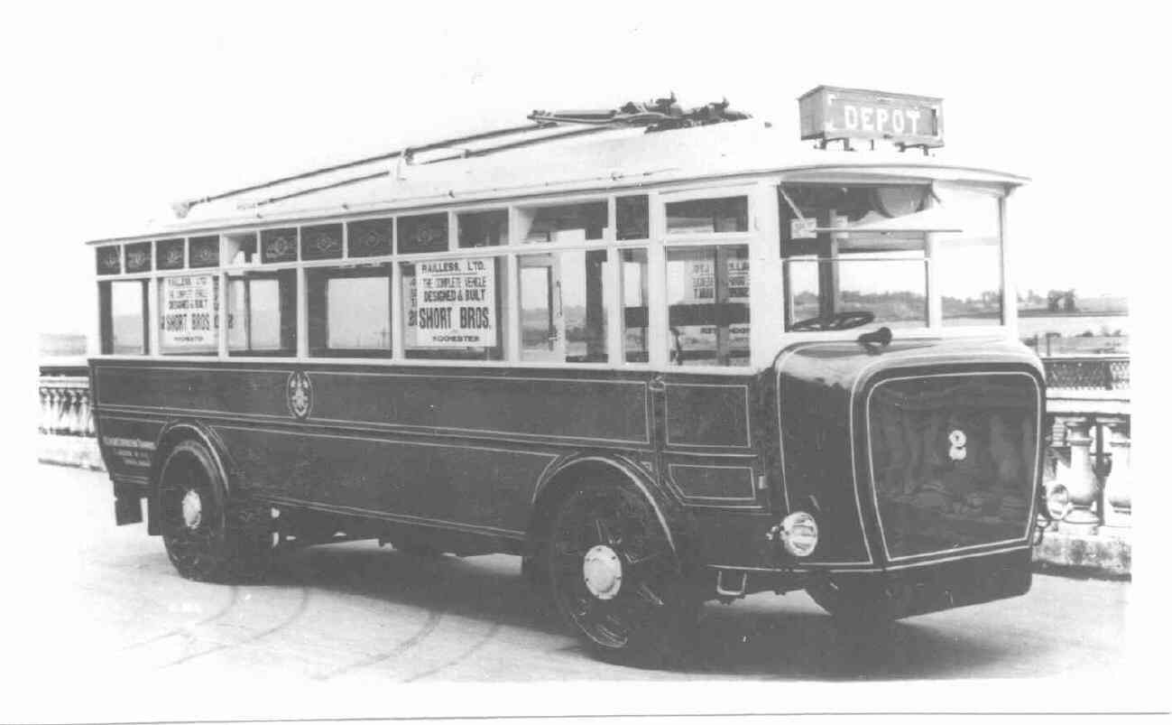 A front three-quarter view of Oldham Corporation Passenger Transport trolleybus number 2. Oldham's trolleybuses were both Short-bodied Railless vehicles.